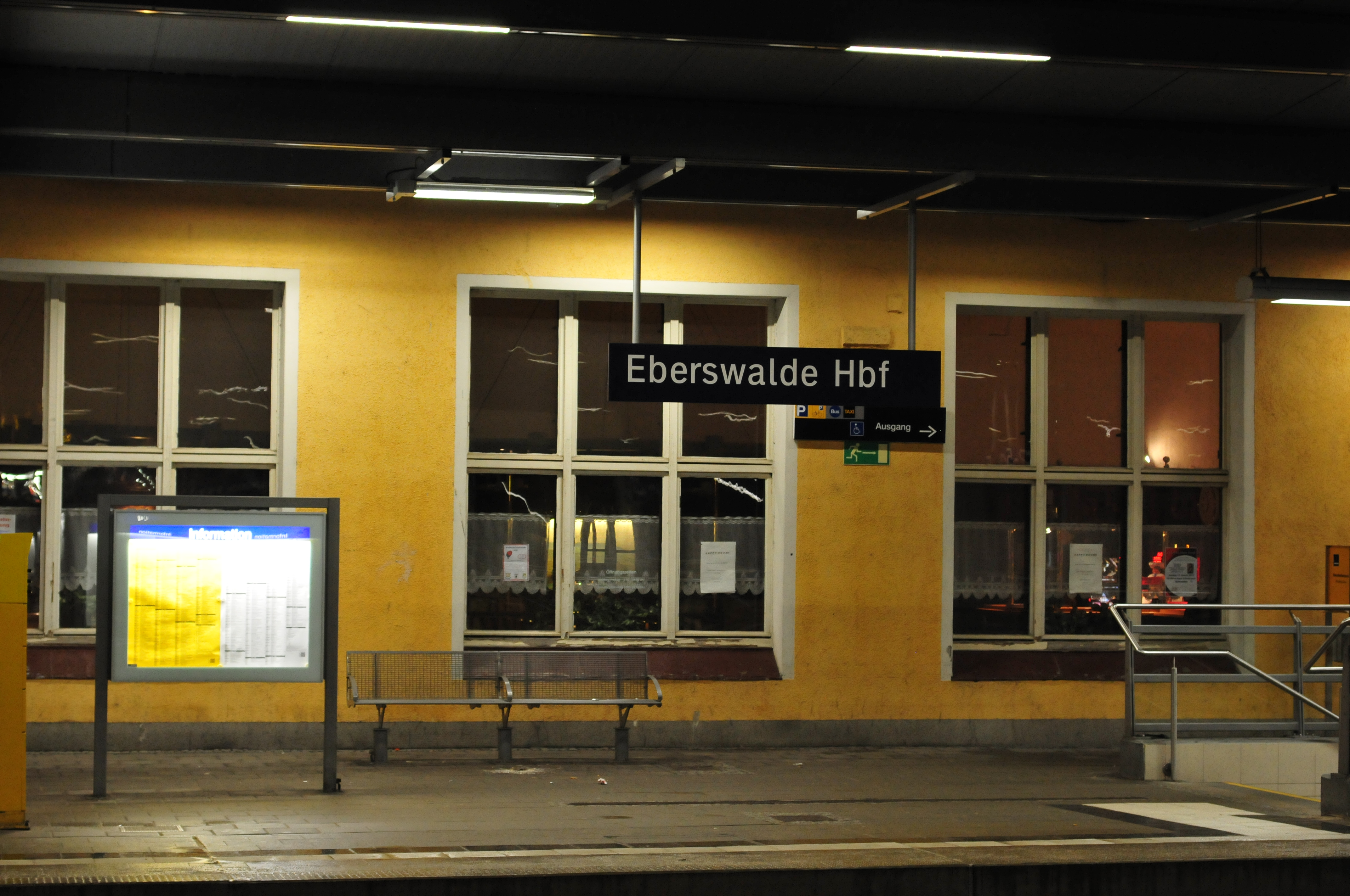 Test images for use and to determine the boundaries of the operational capability of a GPS module, the quality of the photos is not important, it is the analysis of the GPS data. This file is used in a Wikiversity project or course. Please don't change it before you inform the author.